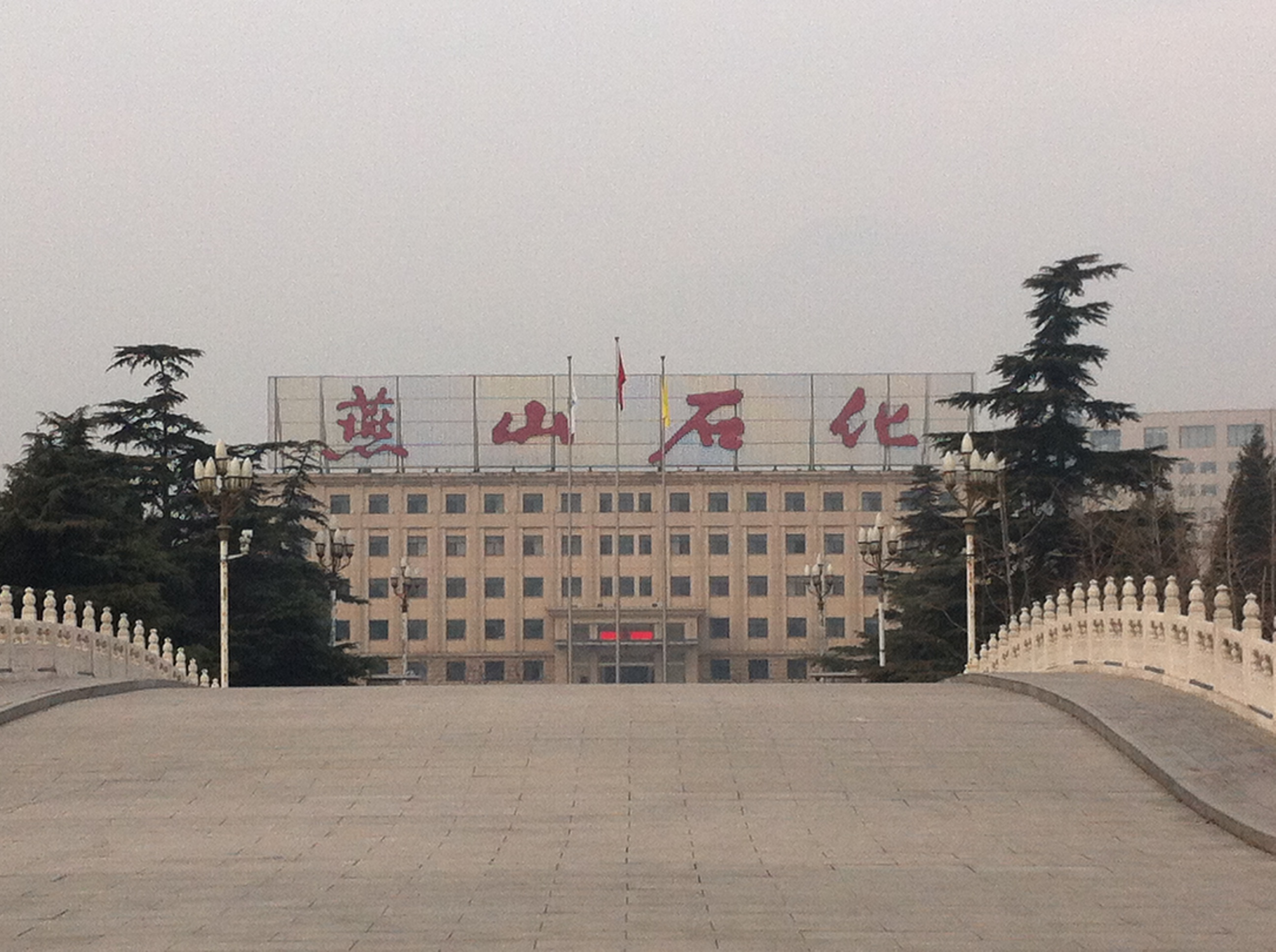 The HQ of Yanshan Petrochemicals, just next to Yanhua Theater.